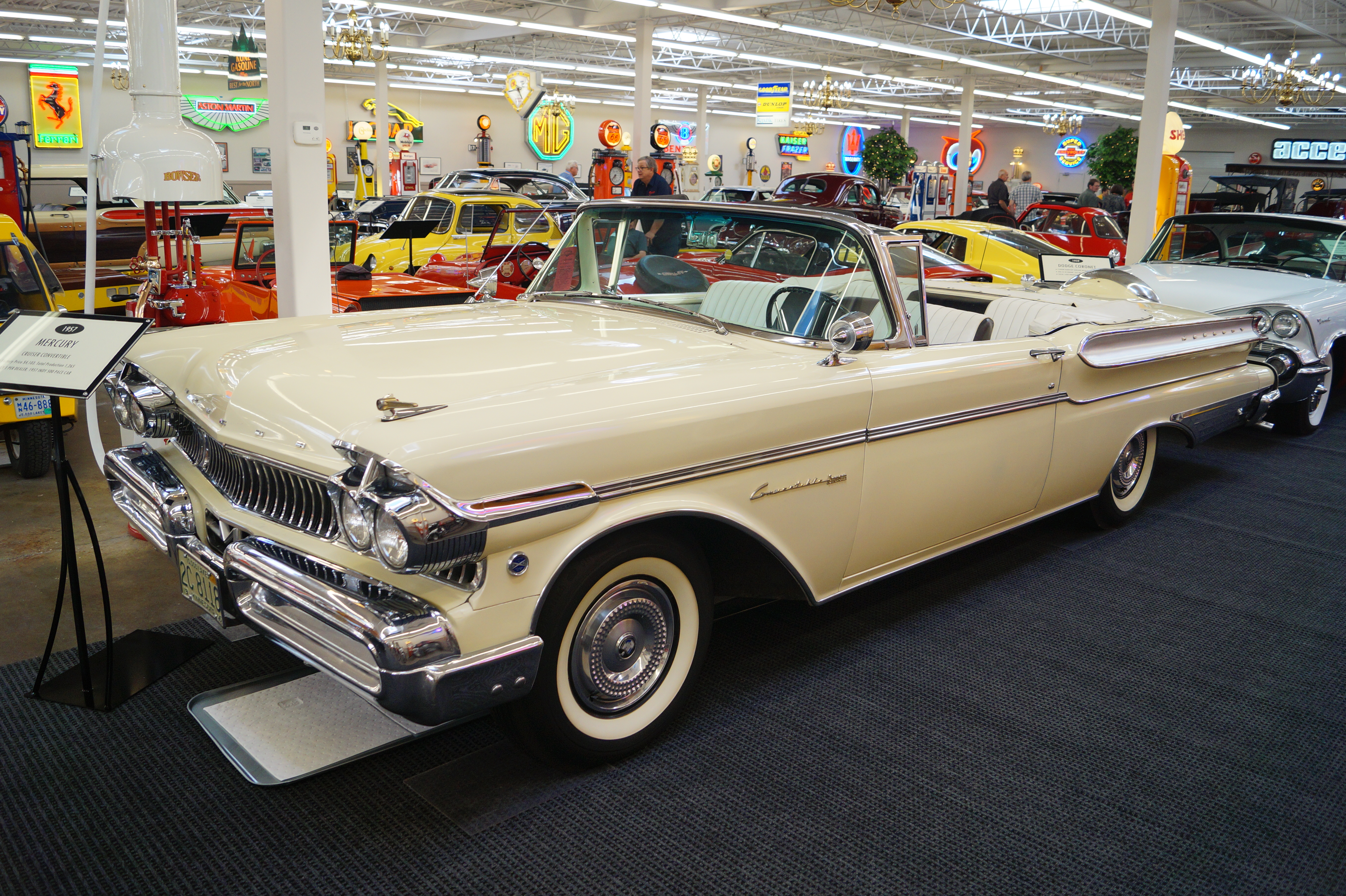 Northstar Lincoln & Continental Owner's Club r Club meeting October 2015 Click here for more car pictures at my Flickr site.